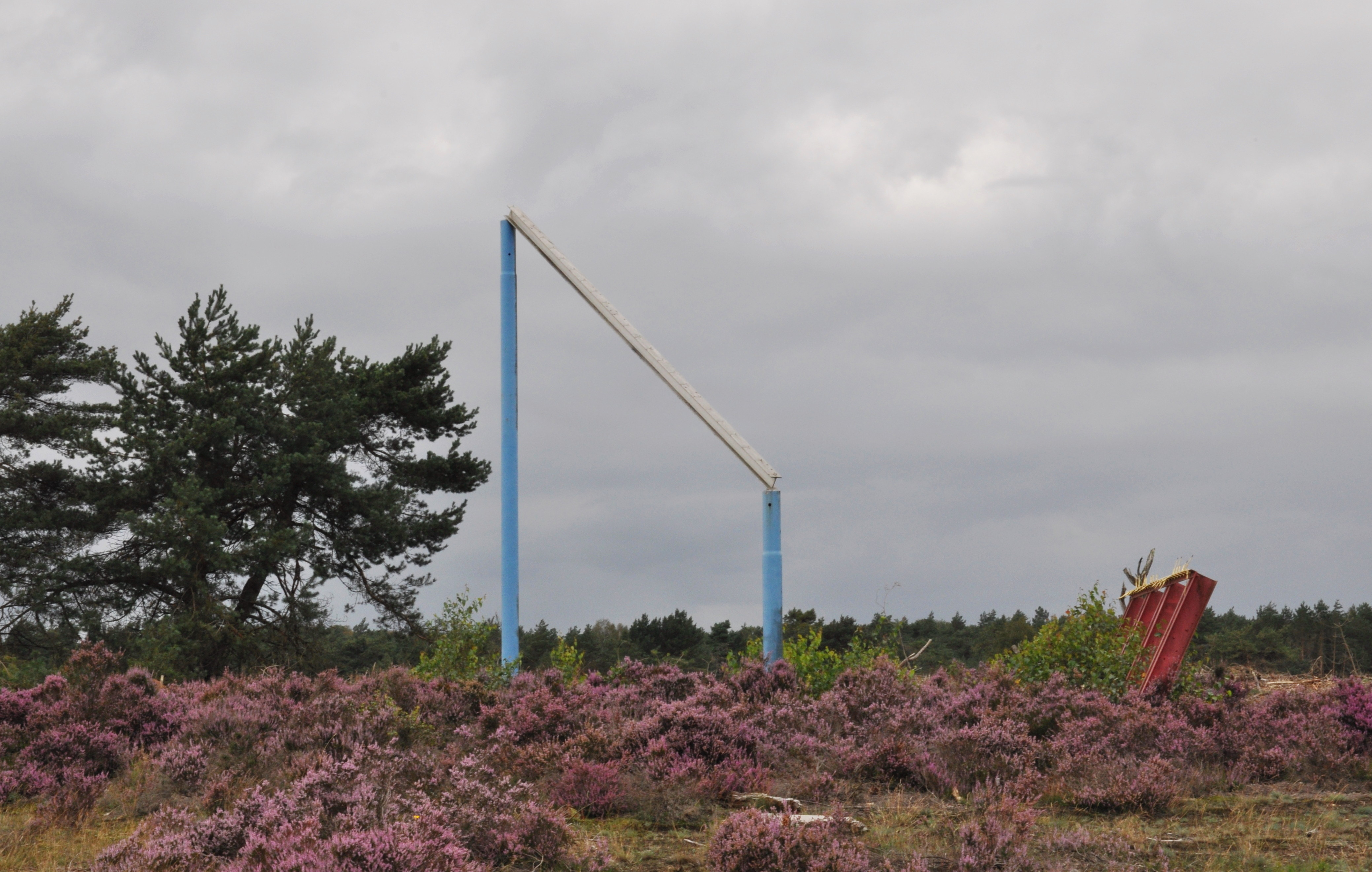 Remains of the monument for relay station Kootwijk's 50th birthday in 1973, vandalised in March 2011. As per 2012, the remains have been removed.